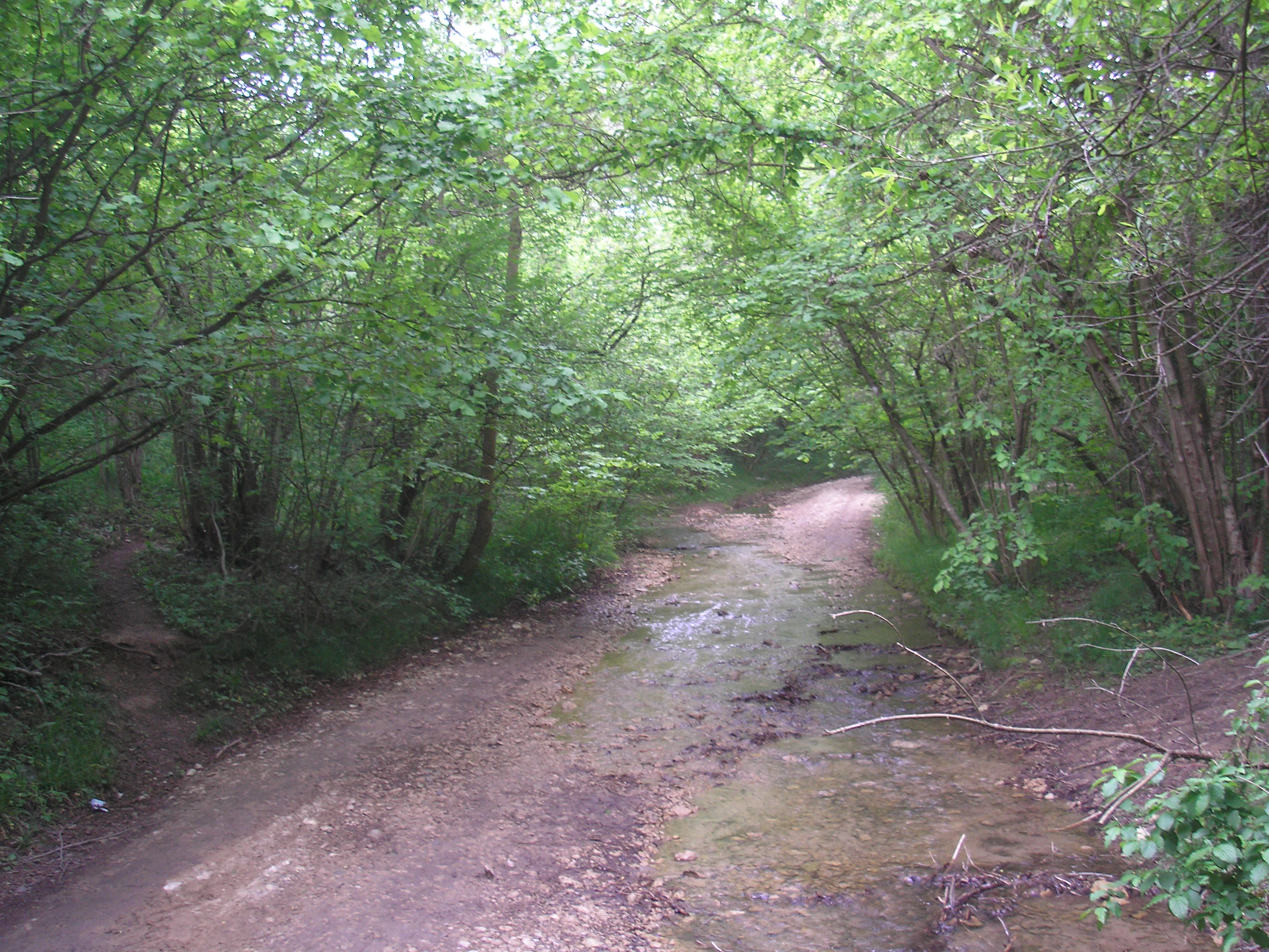 River Beshterek Crimea.